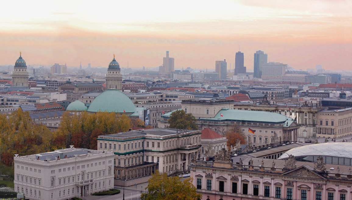 View from Berliner Dom (Berlin Cathedral) in the direction of Potsdamer Platz (Potsdam Square). In the foreground the boulevard Unter den Linden (Under the Linden Trees) with the Guard House, the Prince's Palace and the Bebelplatz are recognizable. The towers on the left of the picture are part of the Gendarmenmarket. In the background the skylines of Leipziger Platz and Potsdamer Platz are visible.